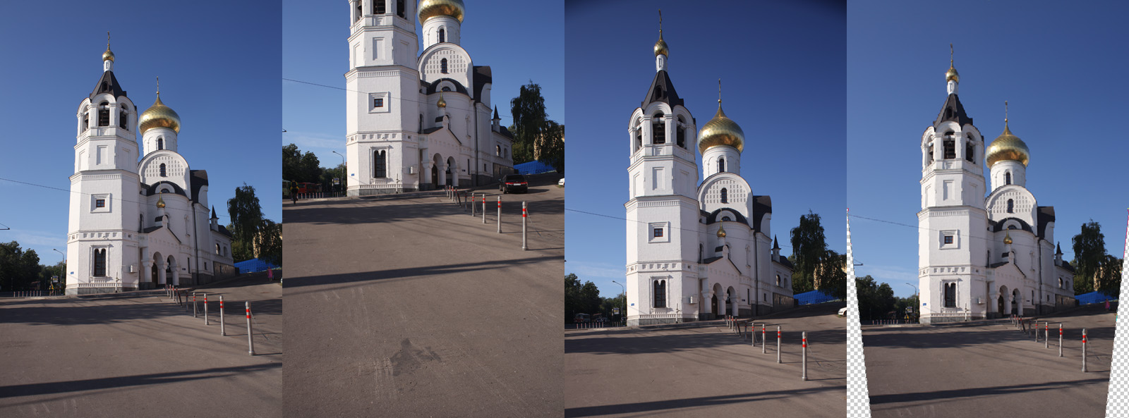 Perspective correction using Shift Lens. Left to right: shot with tilted camera; straight camera without shift; straight camera with lens shifted up; first shot, processed in Photoshop